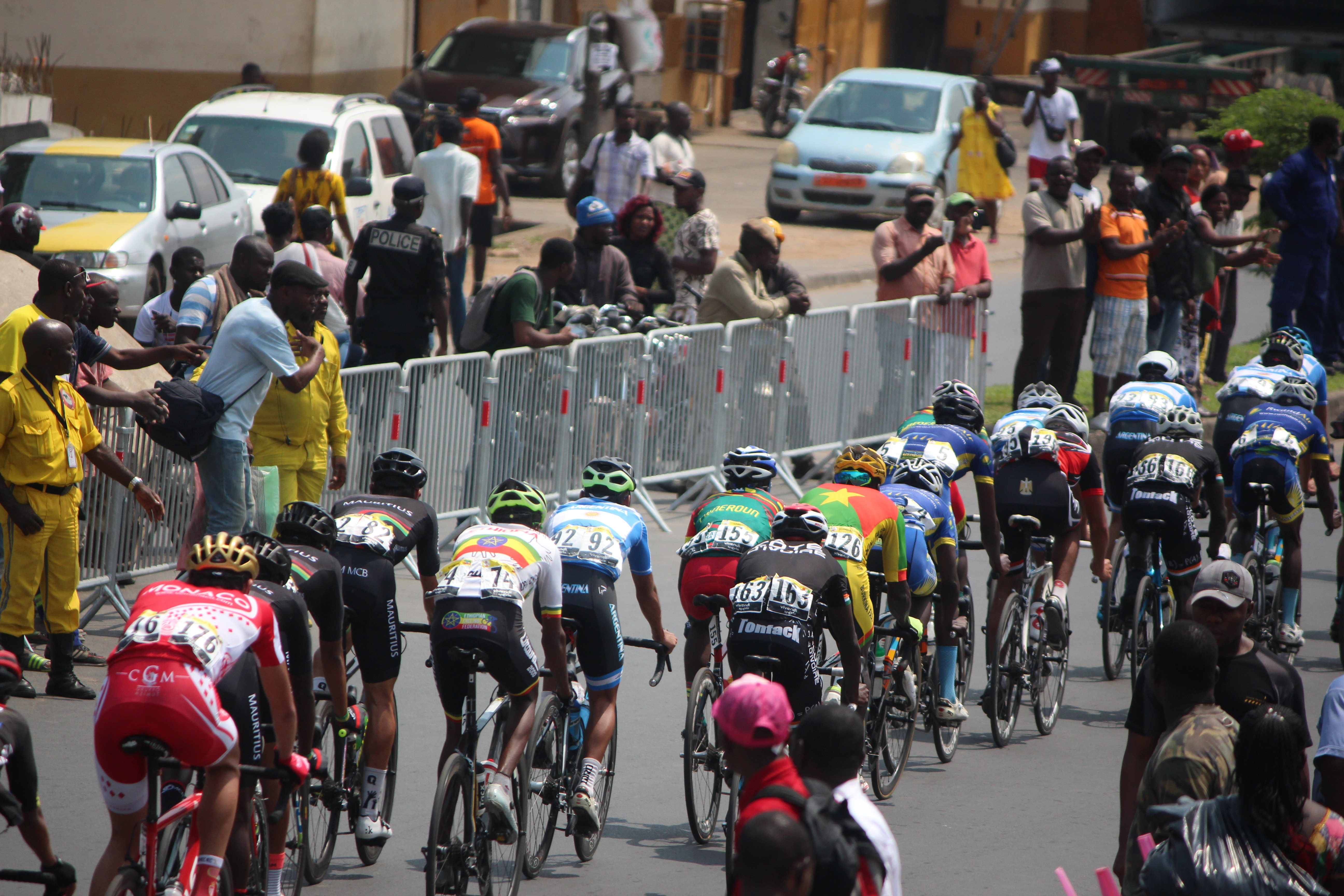 This is an image with the theme "Play" from: Cameroon